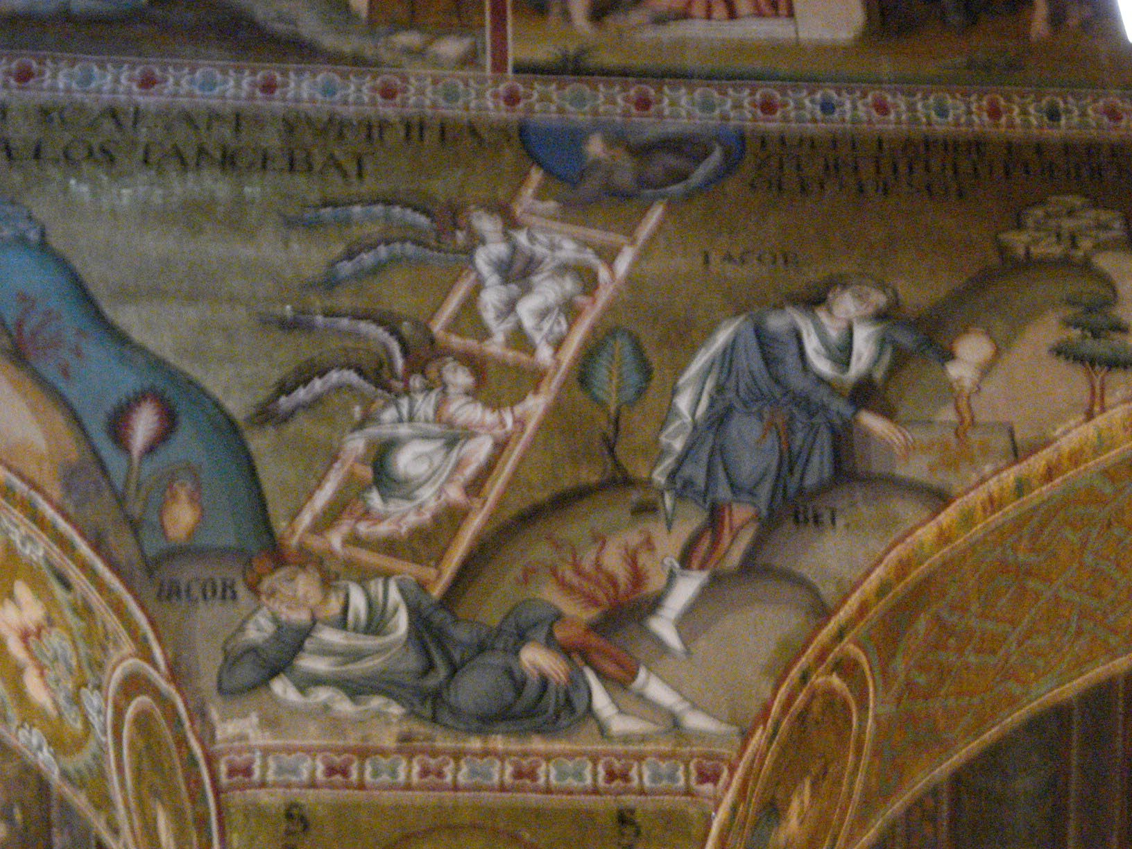 Jacob's staircase